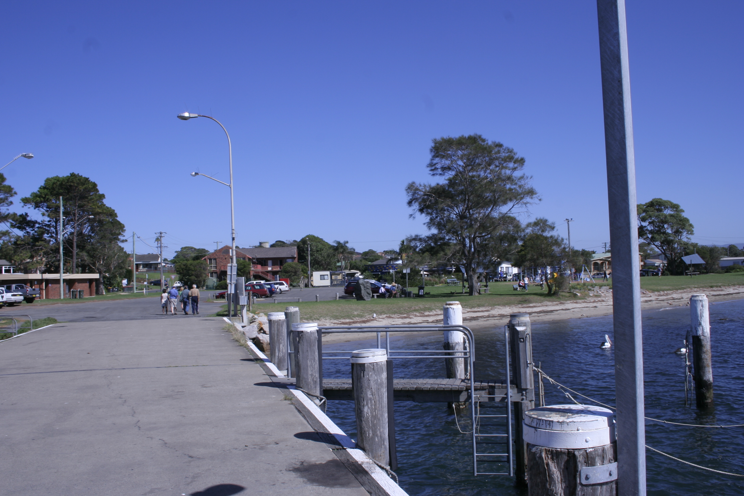 Greenwell Point, looking west